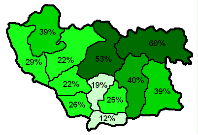 Percentage of forested area (without swamps) in counties of Volhynian governorate, 1856